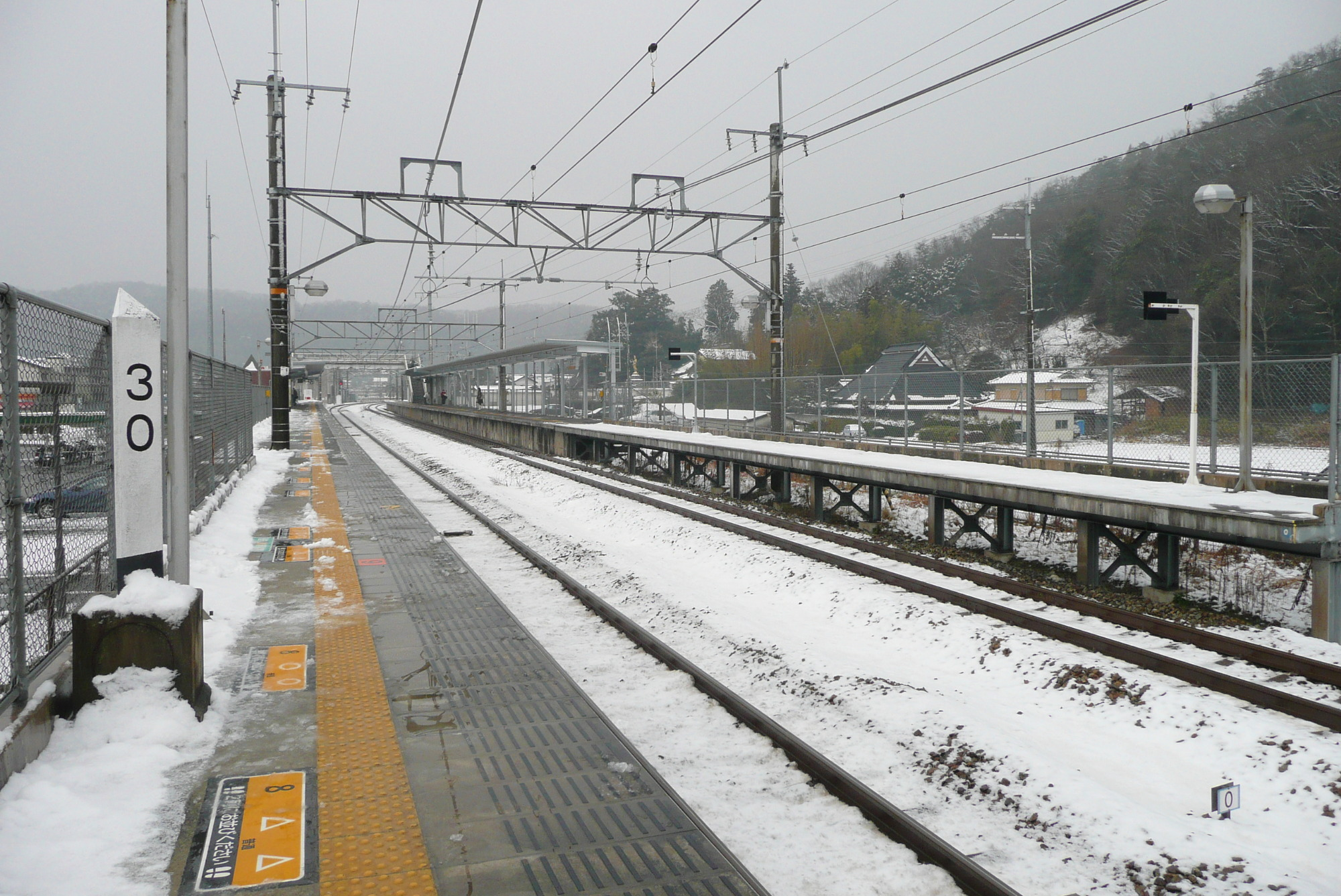 West Japan Railway,Fukuchiyama Line,Dojo Station platform. / JR福知山線（宝塚線）道場駅ホーム